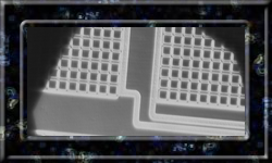 Nano-picture of the Silicon-based sensor